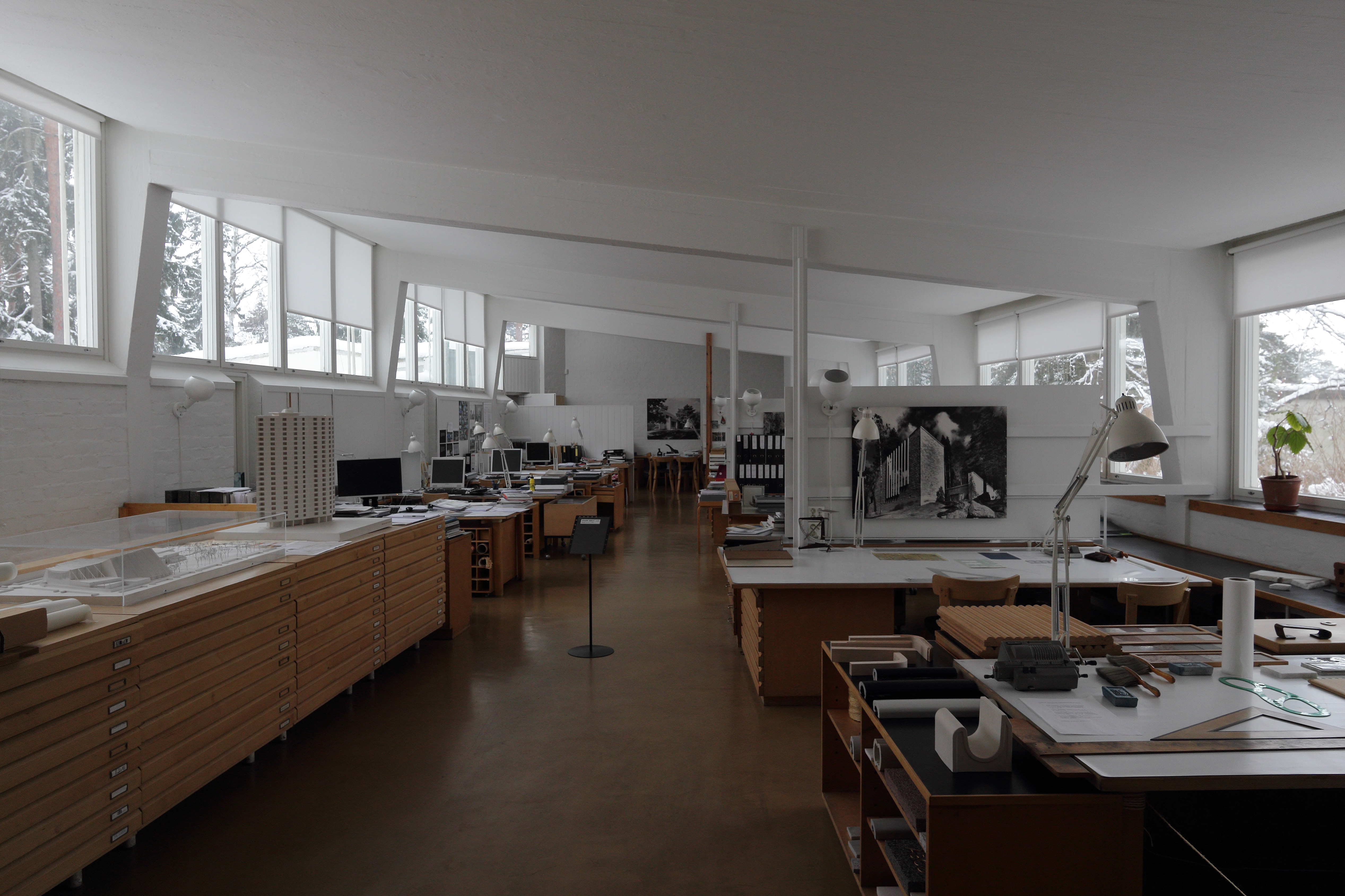 Studio Aalto 1956 architect:Alvar Aalto Tiilimäki 20, 00330 Helsinki